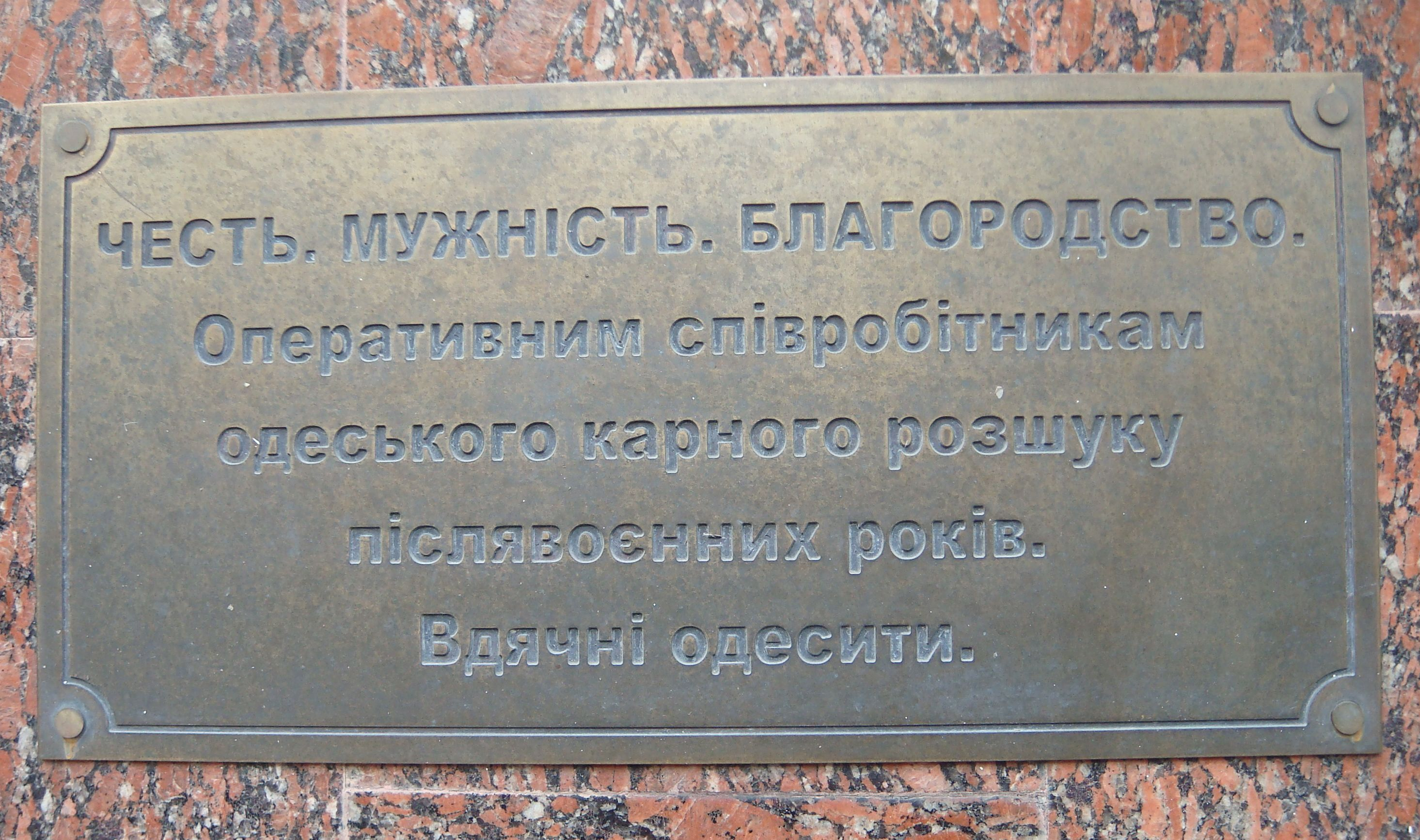 Monument to David Gotsman plaque. It's written in Ukrainian language: "Honor, courage, nobility. To criminalists of Odessa criminal police of WWII-aftermath times. Grateful odessites"